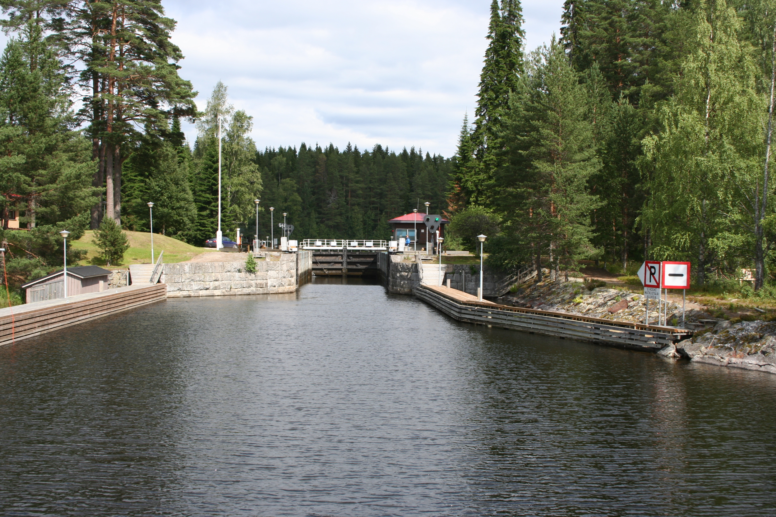 Vihovuonne Canal in Heinävesi, Finland